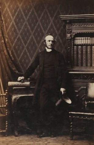 Portrait of Robert Andrew Bathurst (1817–1906), English cleric and cricketer.